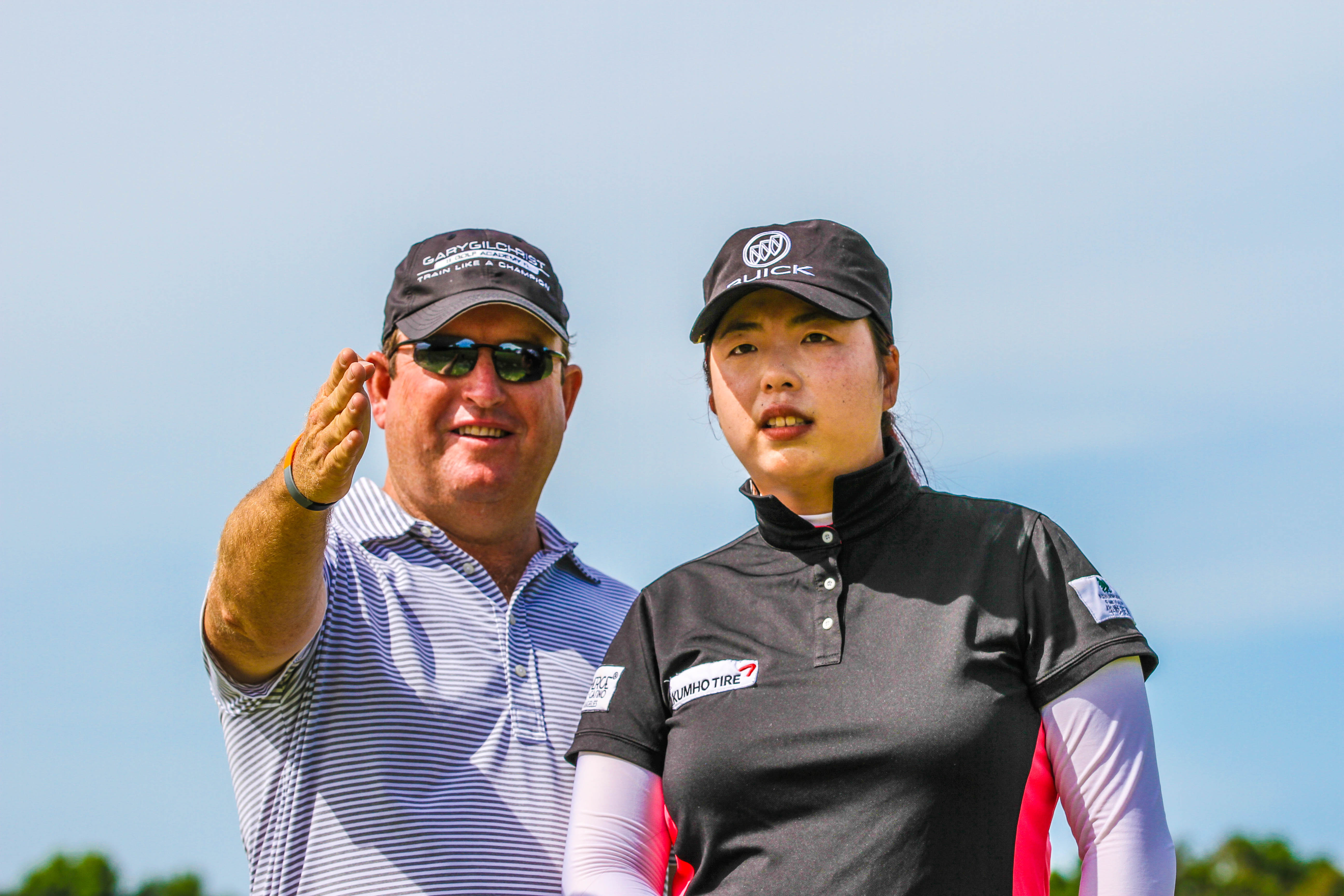 Gary Gilchrist with LPGA Pro Shanshan Feng during a training session at the Gary Gilchrist Golf Academy